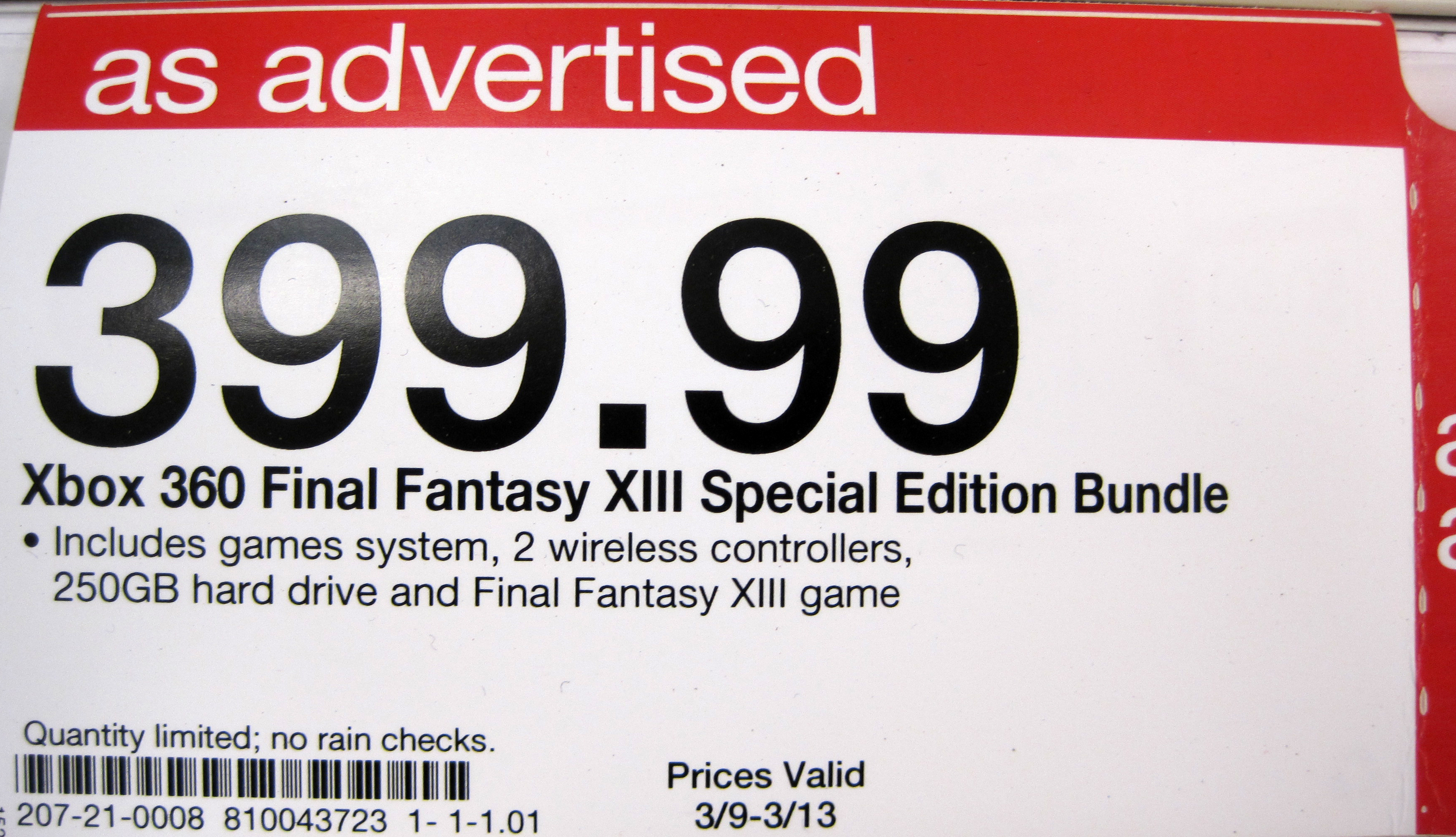 The price tag for the Xbox 360 Final Fantasy XIII Special Edition bundle at Target at the Shops at Tanforan in San Bruno, California. The bundle includes an Xbox 360 with a 250 GB hard drive, 2 controllers, and the game and comes in a box with a Final Fantasy XIII theme.